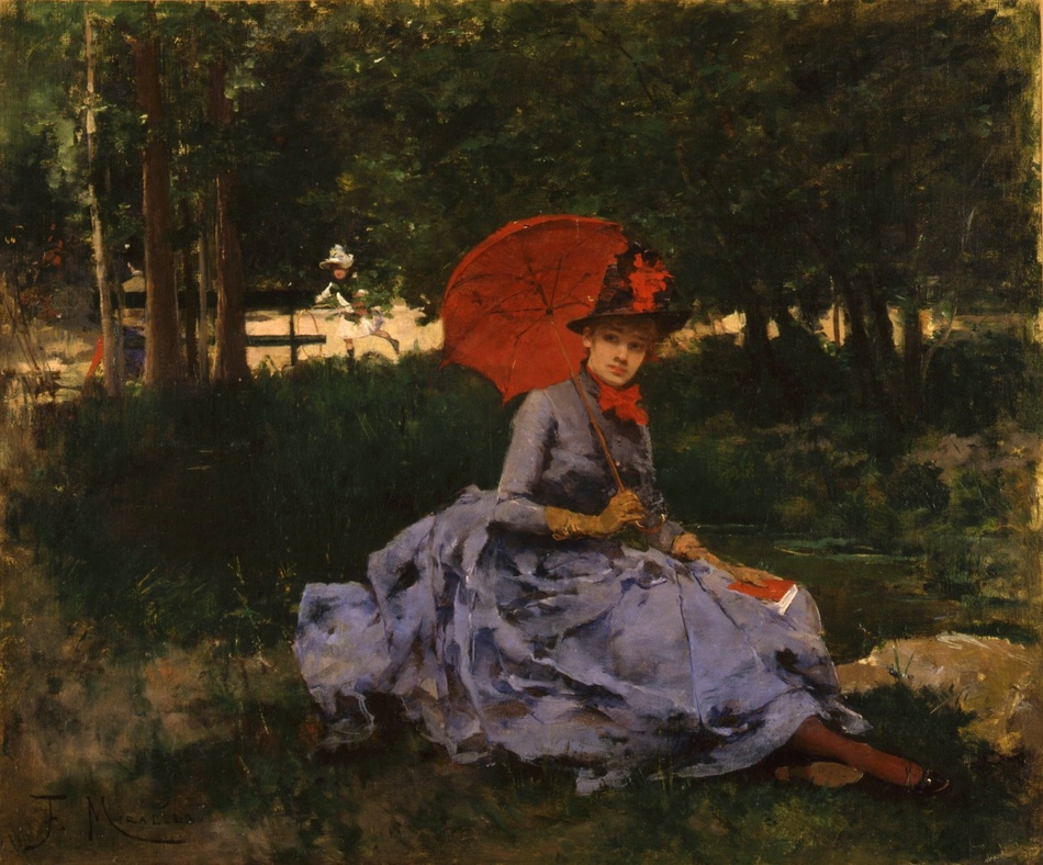 The Red Parasol